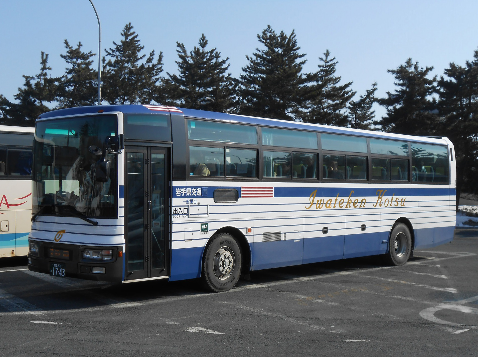 Iwateken kotsu Nissan Diesel Space Arrow (KL-RA552RBN)limited express bus "Senmaya-Morioka"